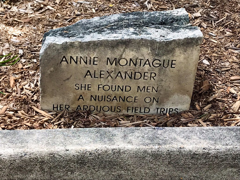 Stone with inscription about Annie Alexander located on the University of Colorado Campus near the Museum Collections building.